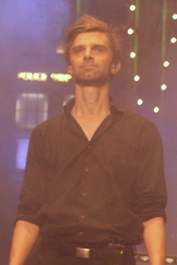 Ben Foster at the Doctor Who Prom (Prom 13 of the BBC Proms 2008) at the Royal Albert Hall.